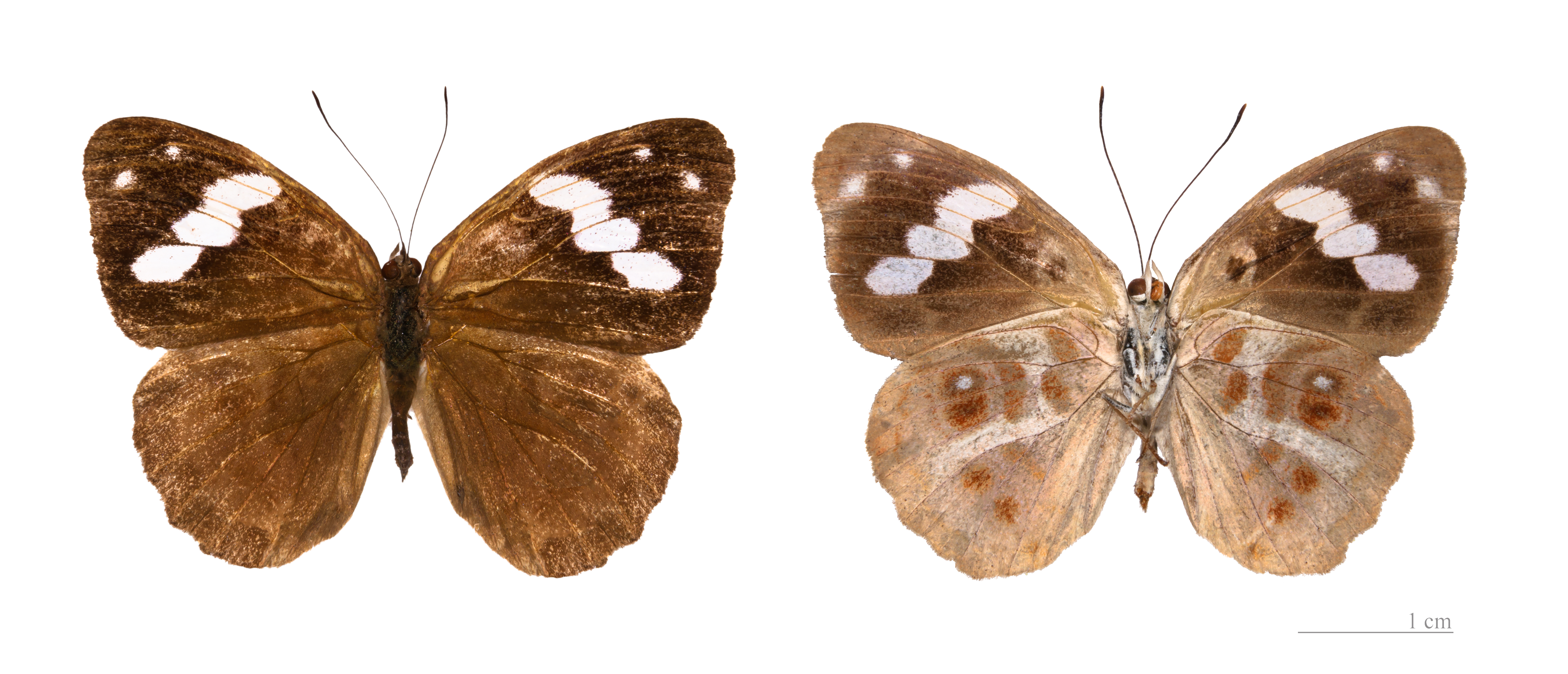 ♂ - Two views of same specimen Locality : Kaw road, PK37 French Guiana